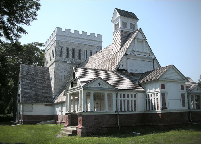 The Church of the Presidents in Elberon, New Jersey. Photo by Kevin C. Fitzpatrick, Aug. 4, 2007.